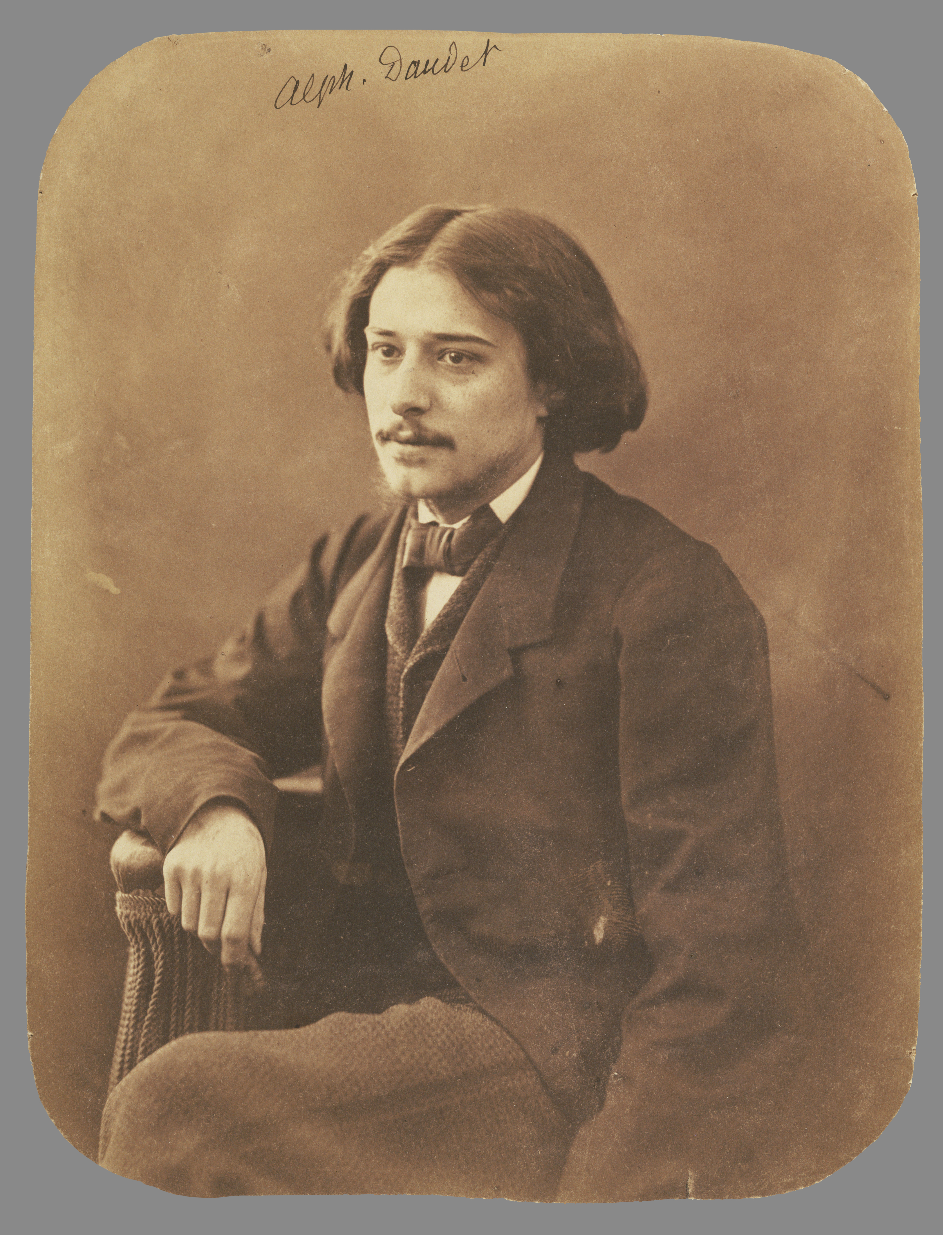 Alphonse Daudet. Image (rounded corners): 22.2 x 17.3 cm (8 3/4 x 6 13/16 in.). (Recto, print) inscribed in black ink, at upper center: "Alph. Daudet"